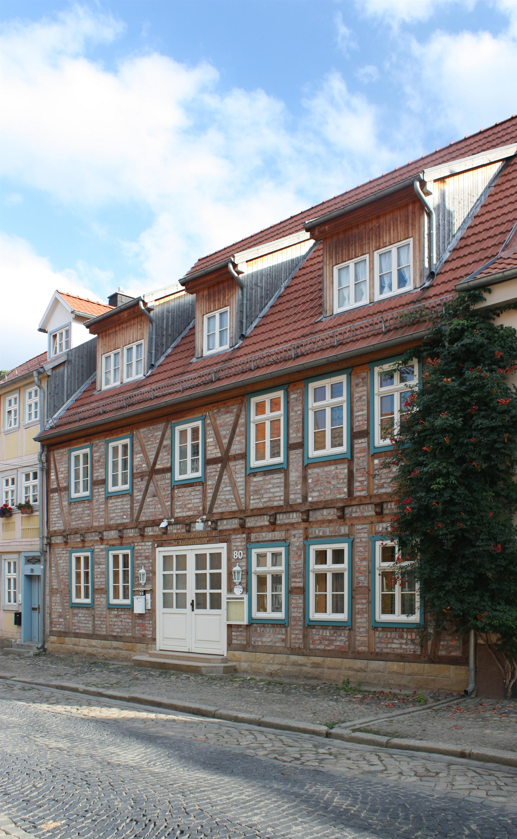 This is a photograph of an architectural monument.It is on the list of cultural monuments of Quedlinburg Augustinern in Quedlinburg